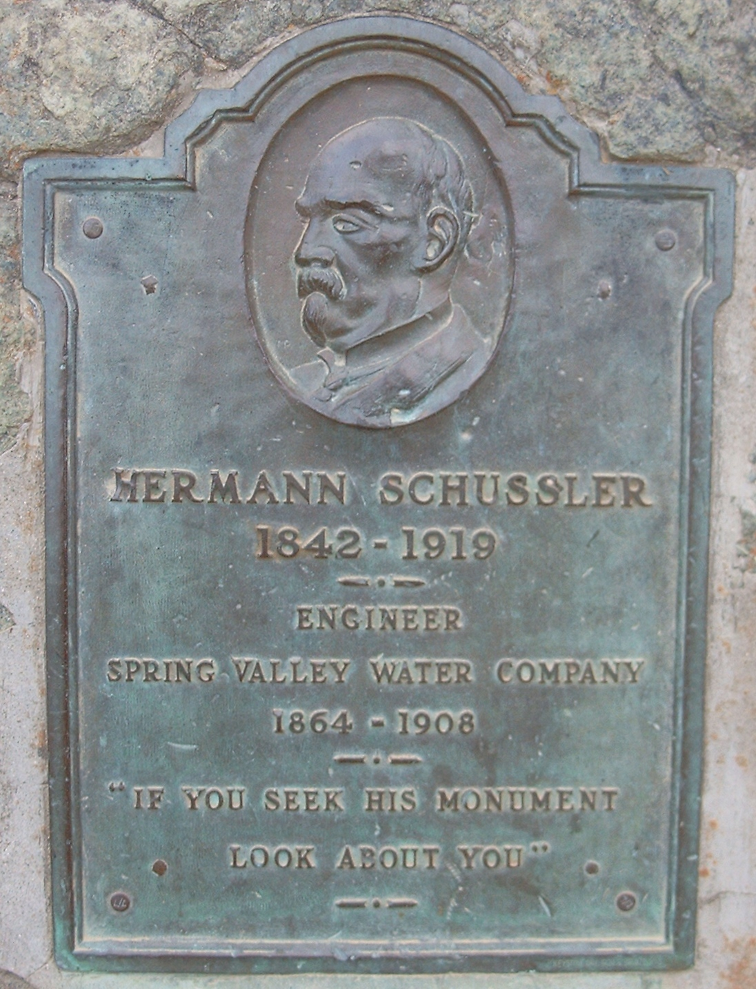 A bronze plaque to honor Hermann Schussler (1842-1919) located at the Crystal Springs Reservoir. It was inaugurated 1976 when the Lower Crystal Springs Dam became a California Historic Civil Engineering landmark.